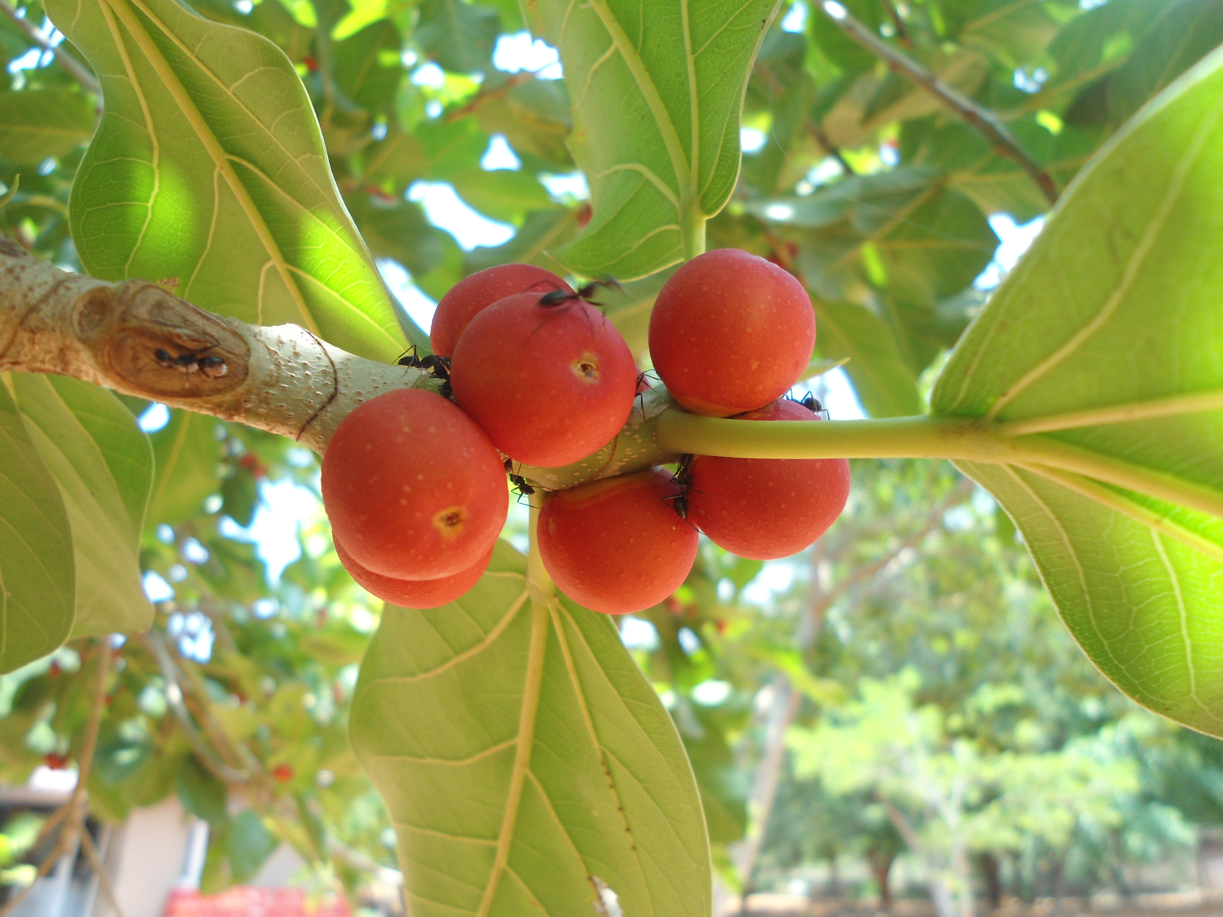 A Banyan( Ficus benghalensis) fruit at Indira Gandhi Zoological Park, Visakhapatnam